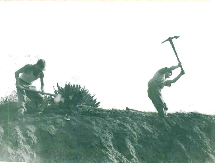 Paving the way to Daphna, Settlements in Israel